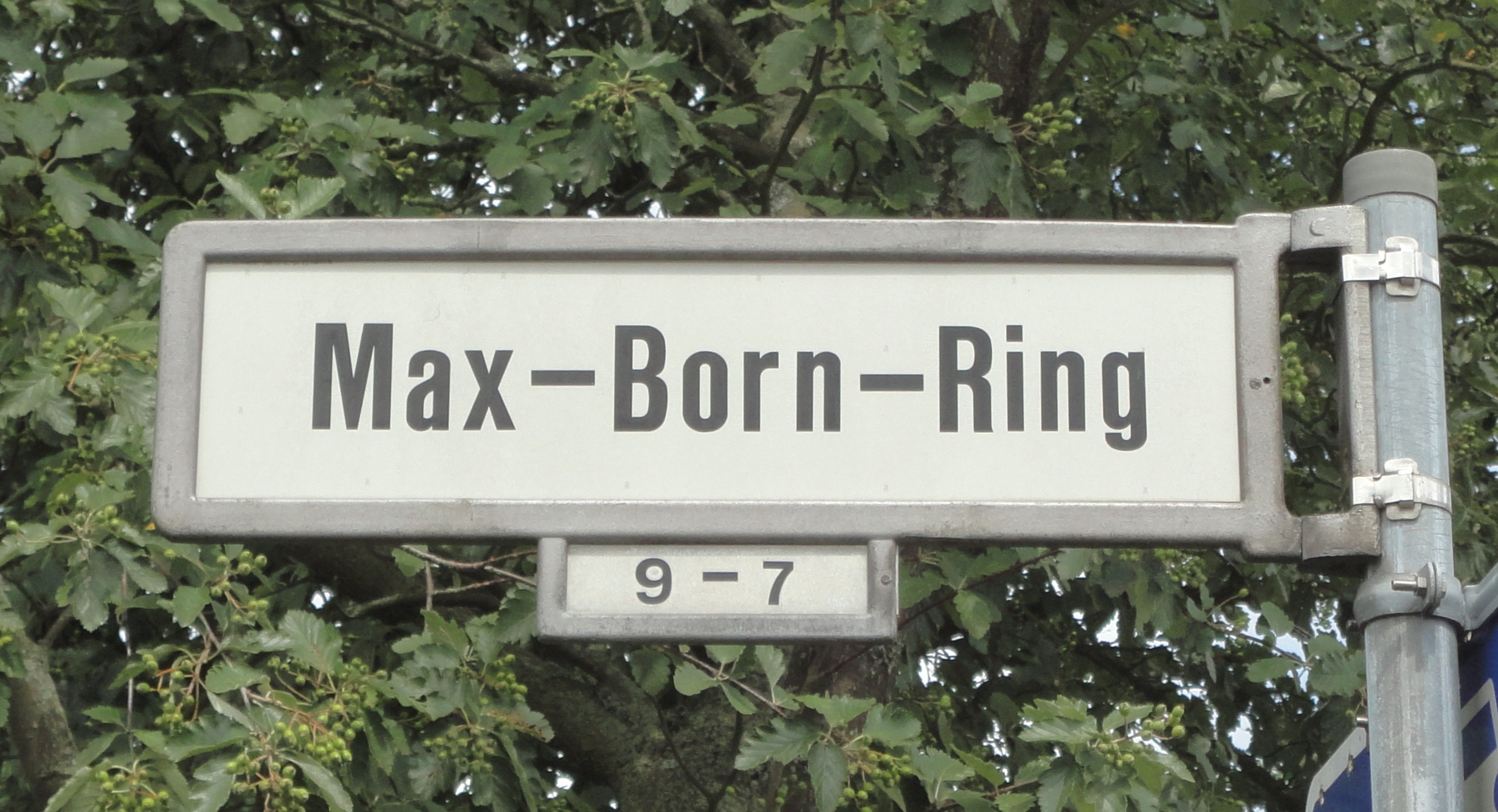 Göttingen-Weende, road sign Max-Born-Ring